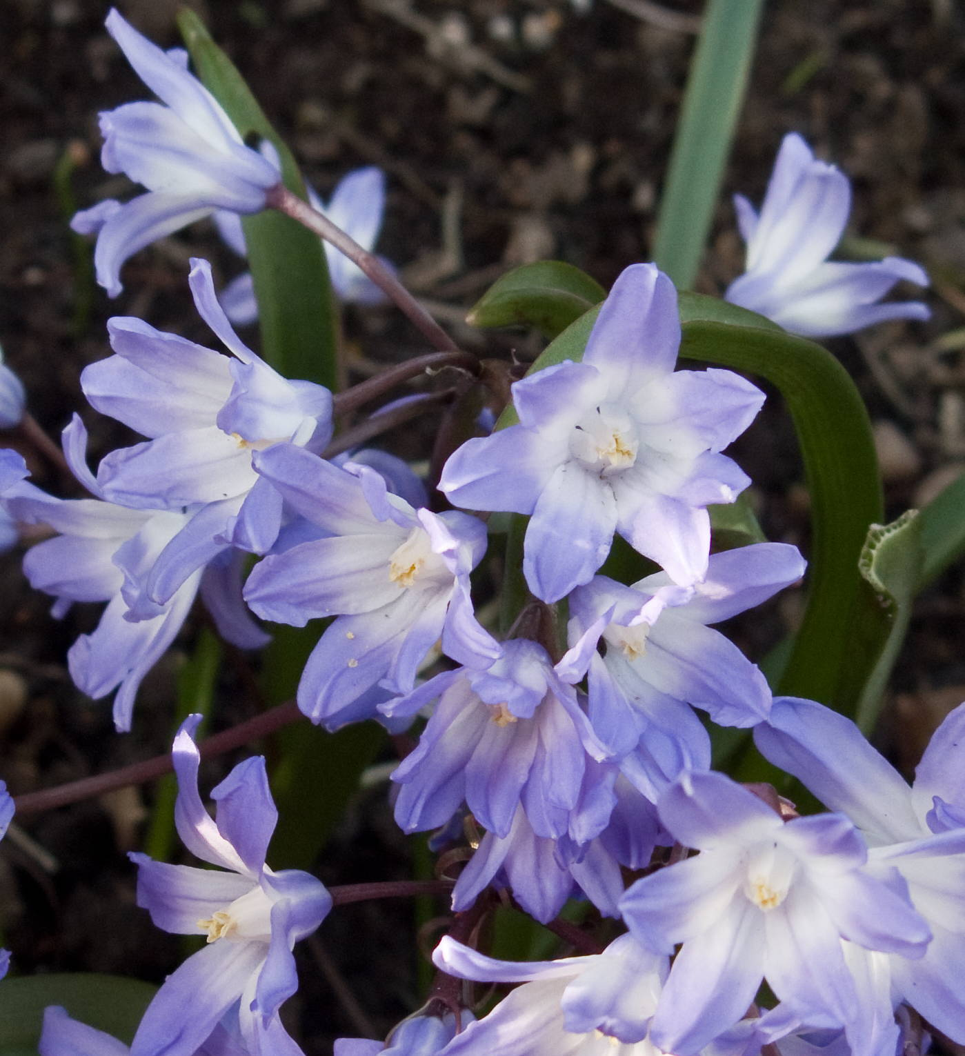 Close-up of commercial stock of Chionodoxa siehei. Photograph of a slide I took previously.